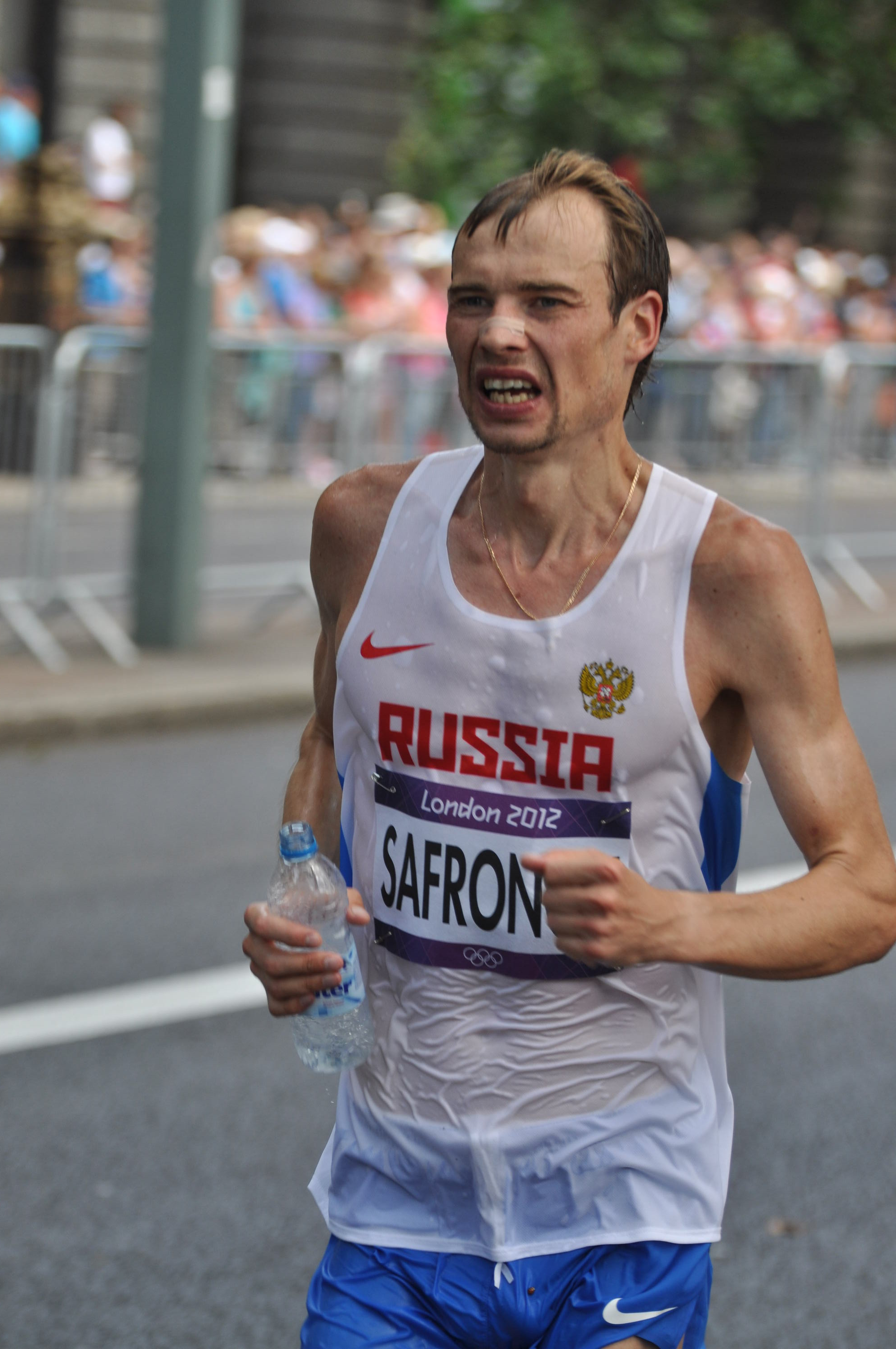 2012 Olympic Marathon